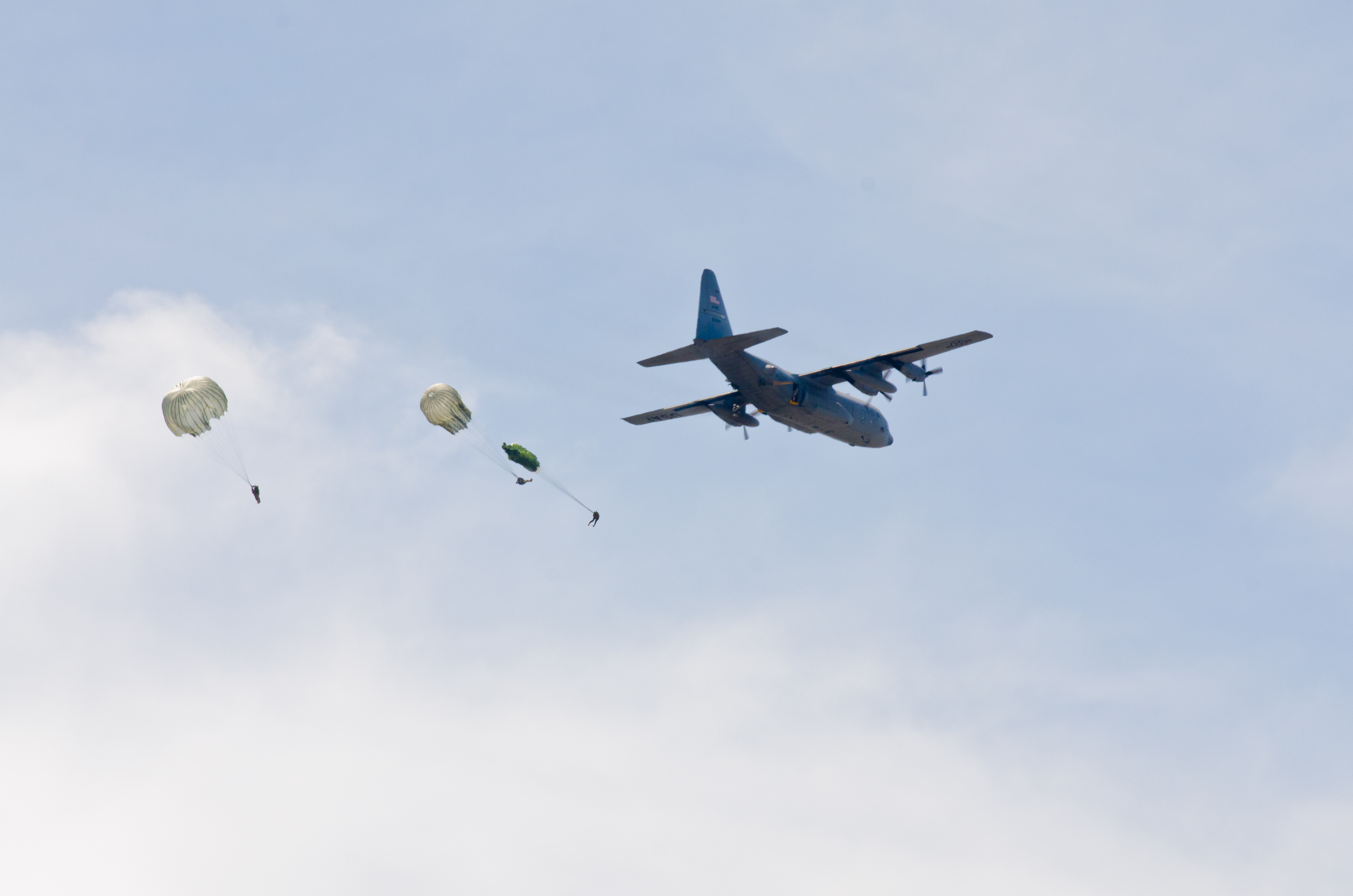 Army Reserve Soldiers from U.S. Army Civil Affairs and Psychological Operations Command (Airborne) parachute out of a C-130H Hercules transport plane during a joint airborne operations exercise with the U.S. Air Force Reserve 440th Airlift Wing from Pope Army Airfield, April 17, 2014. Sixty active and Reserve Soldiers from Fort Bragg, N.C., and 30 Air Force special tactics airmen from Pope participated to highlight the joint capabilities of the two services.